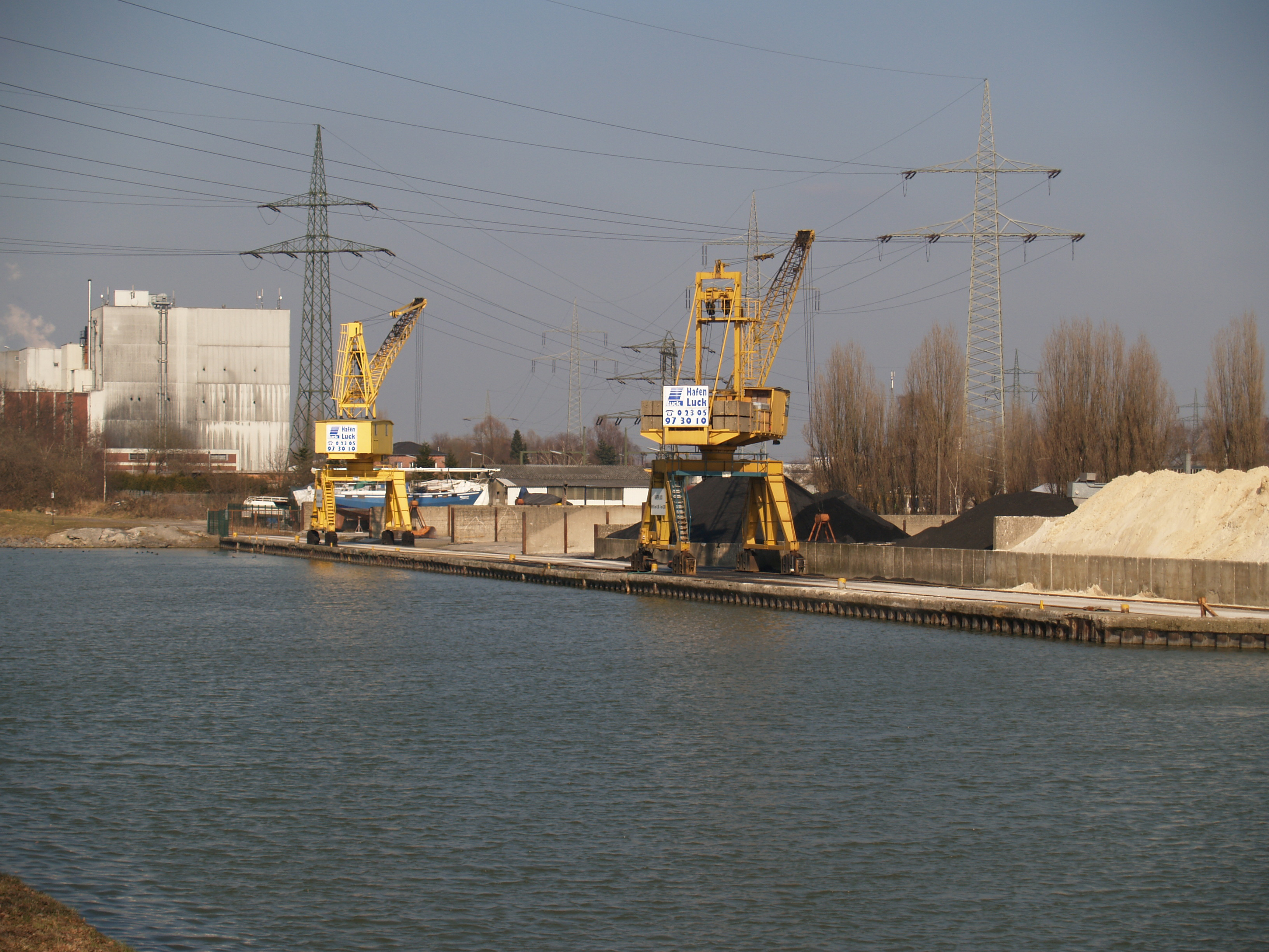 Port Luck at Rhein-Herne-Kanal